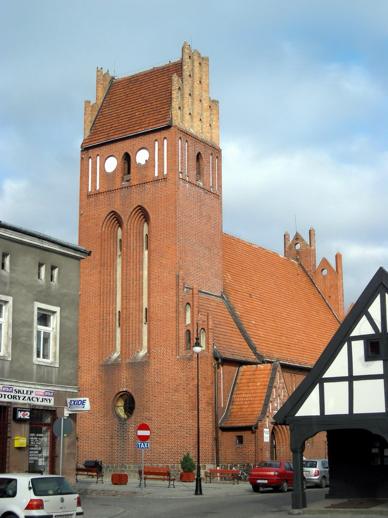 The primary school no. 1 in Golub-Dobrzyń, Poland.